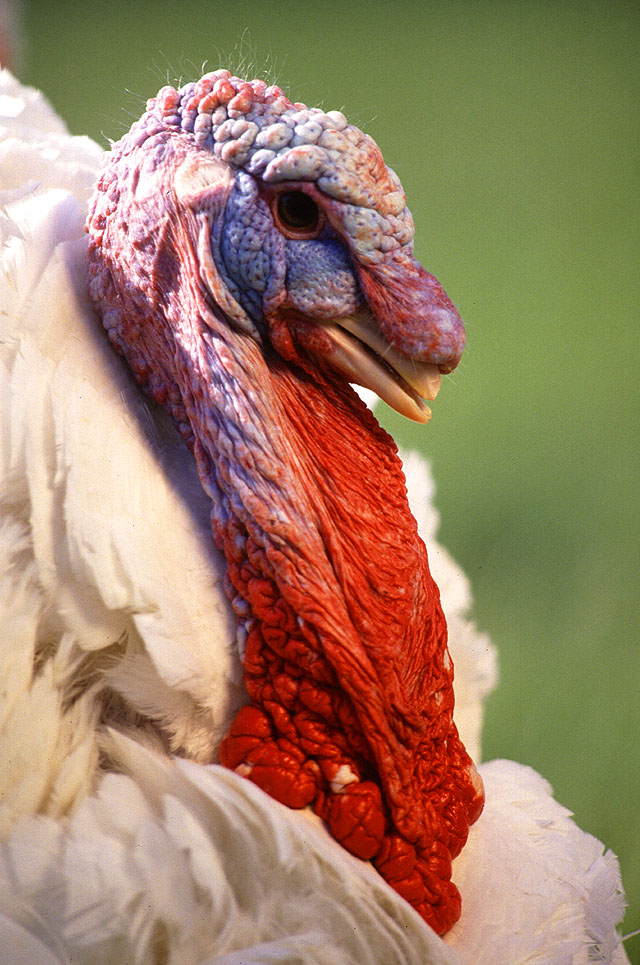 Large White turkey male